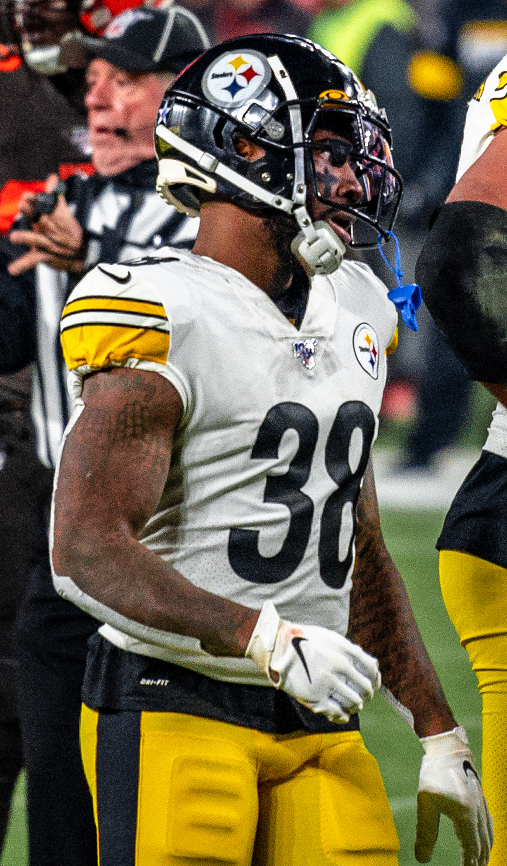 Steelers vs Browns 2019